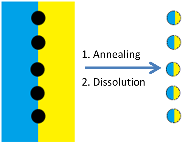 A basic diagram of creating Janus nanoparticles via the block copolymer method